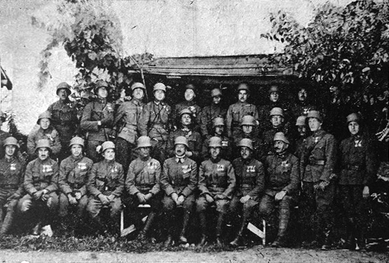 Sándor Szabó's battalion officers, 1918 Summer